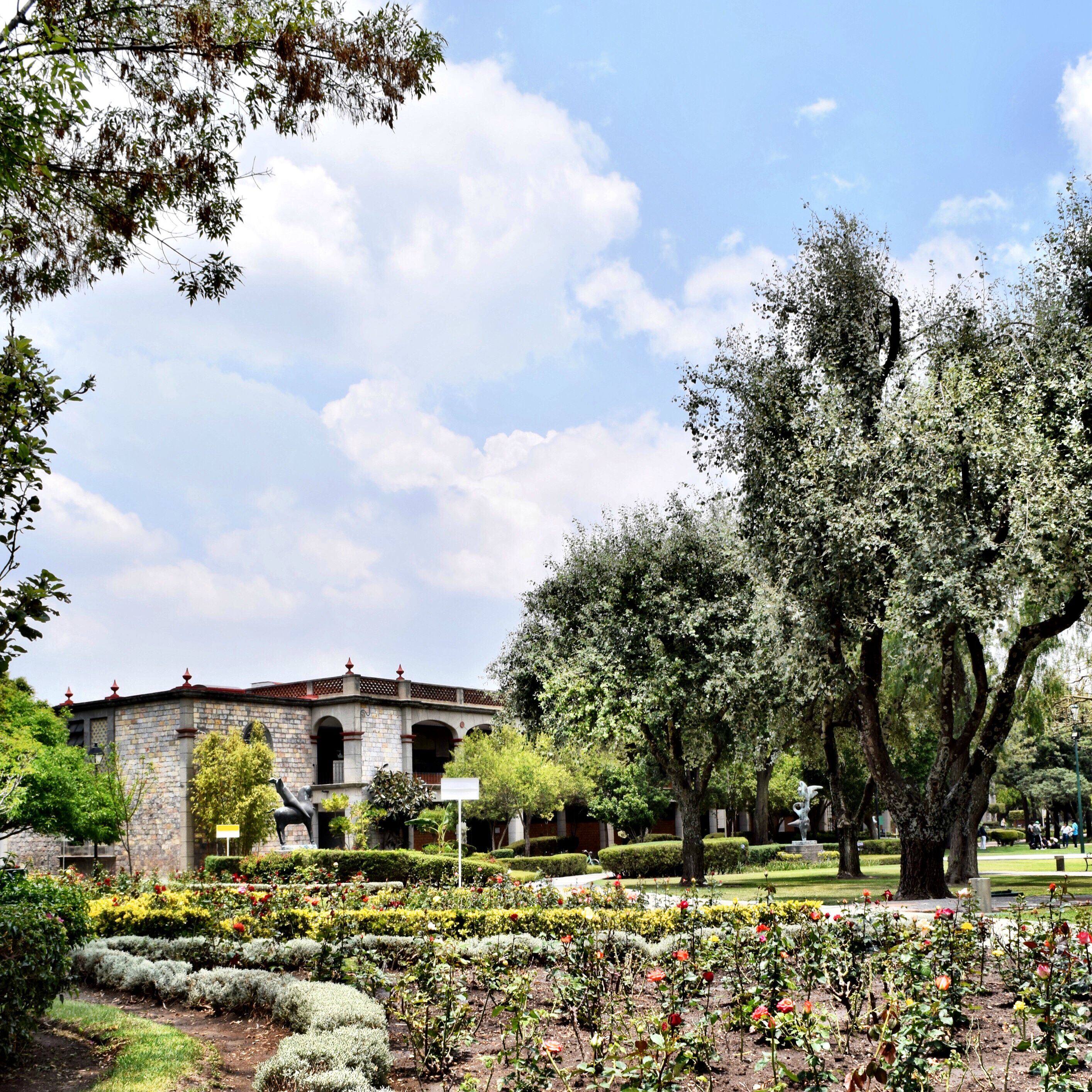 Fotografías de la autoría de la Universidad de las Américas Puebla para uso de la comunidad.